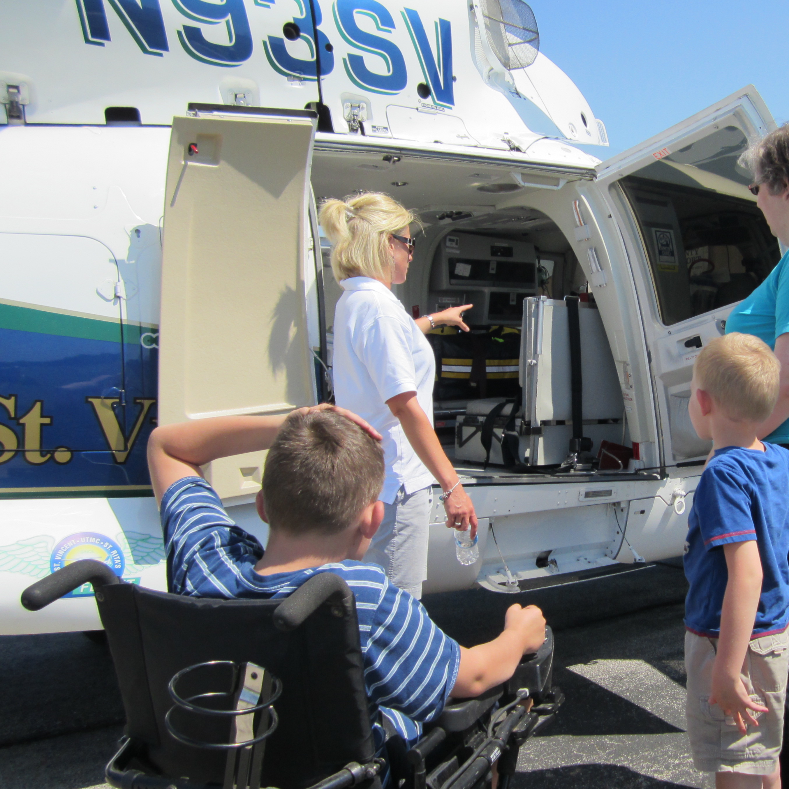 St. Vincent Mercy Medical Center's Life Flight 2 helicopter located at KUSE. A flight nurse gives tours to visitors during a public event.